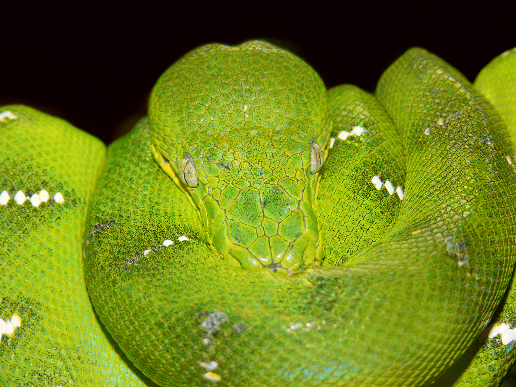 An Emerald Tree Boa, Corallus caninus